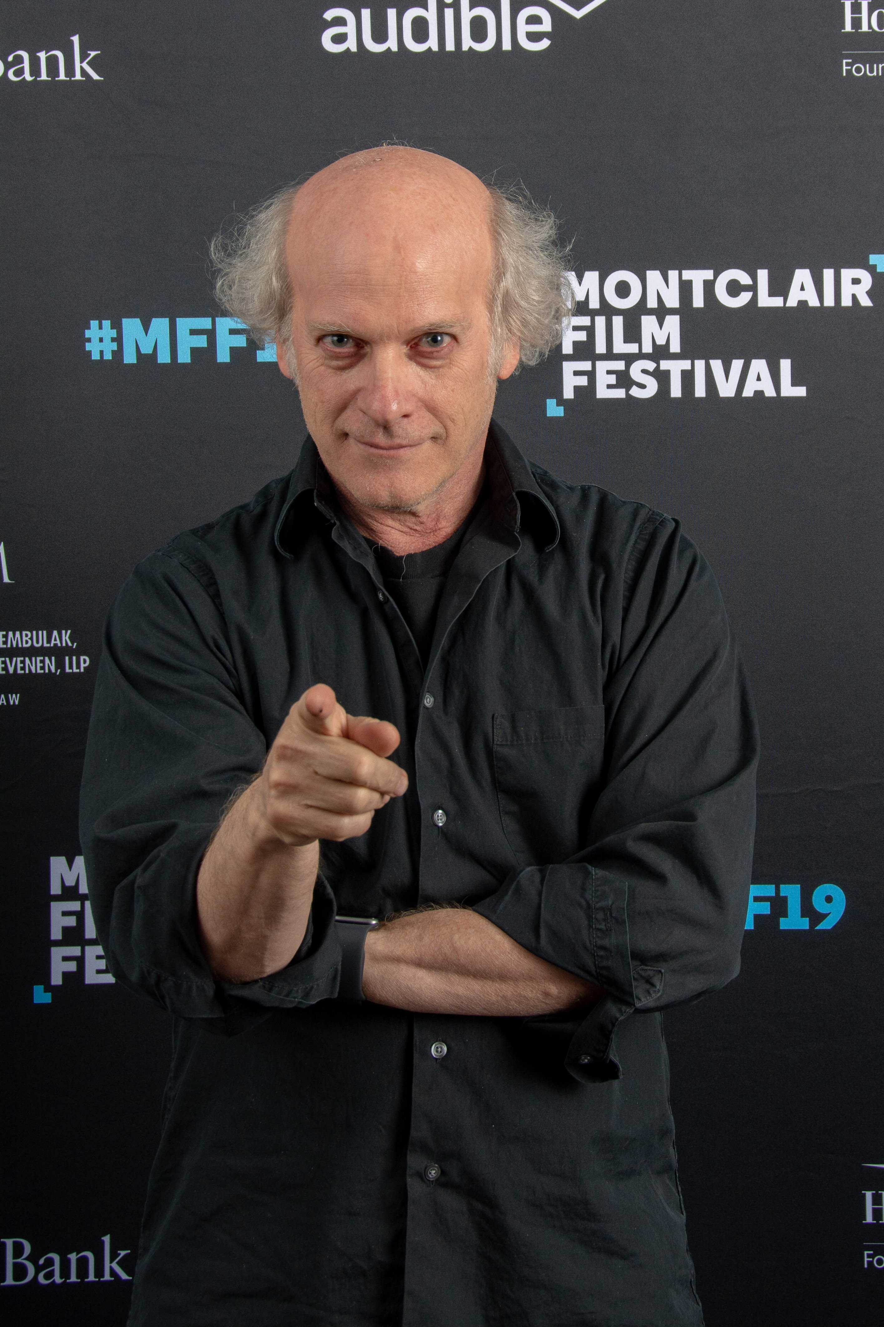 Timothy Greenfield-Sanders at the premiere of Toni Morrison: The Pieces I Am during the Montclair Film Festival 2019.